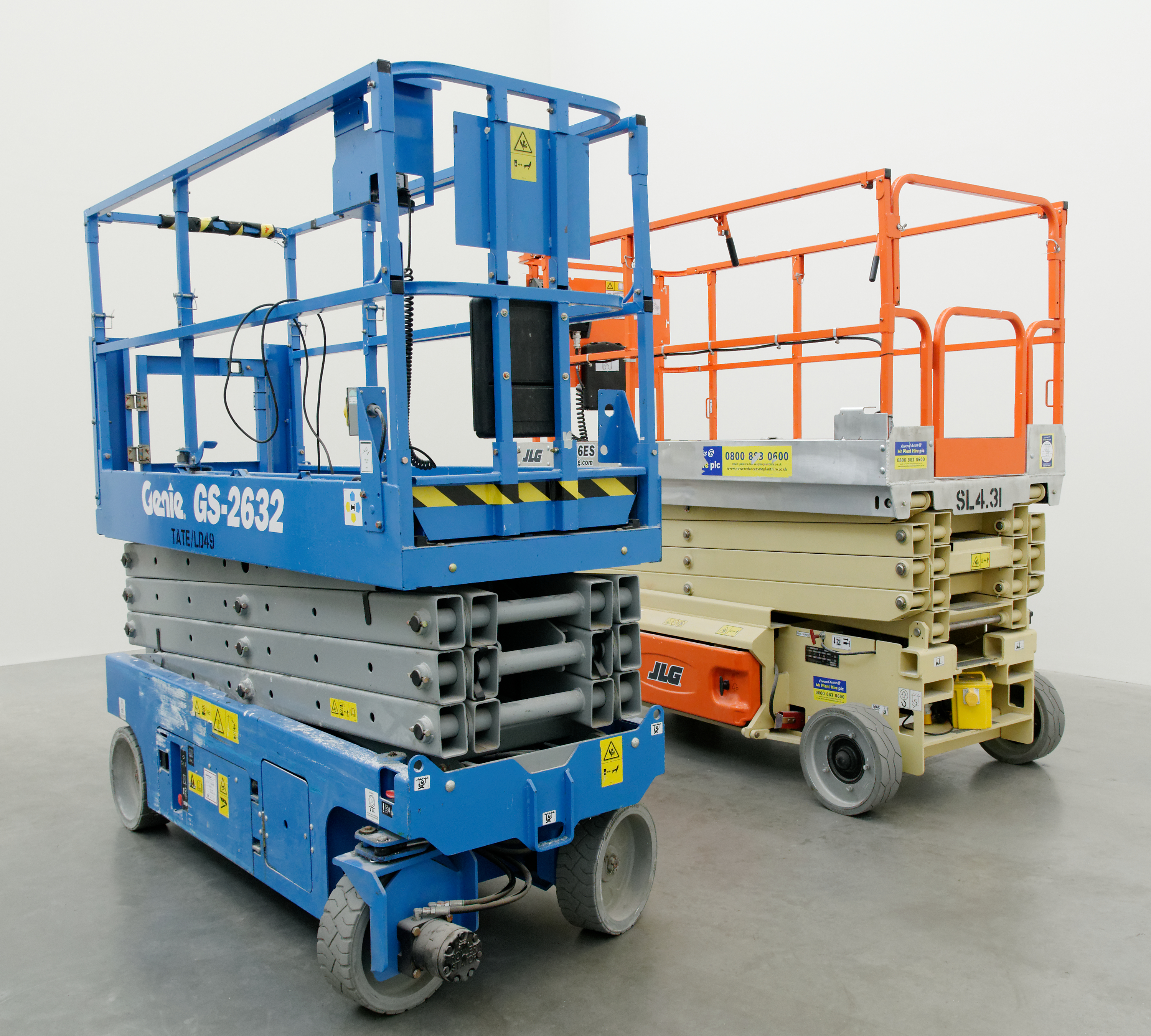 Two slab scissor lifts used by the Tate Modern to install artworks.